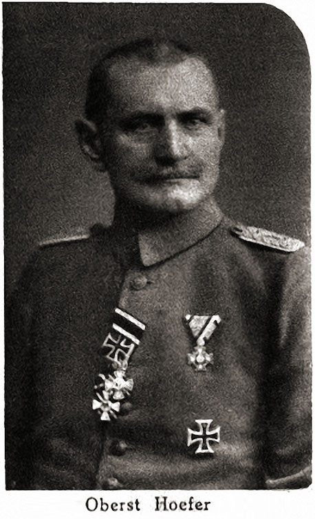 Prussain colonel Karl Hoefer